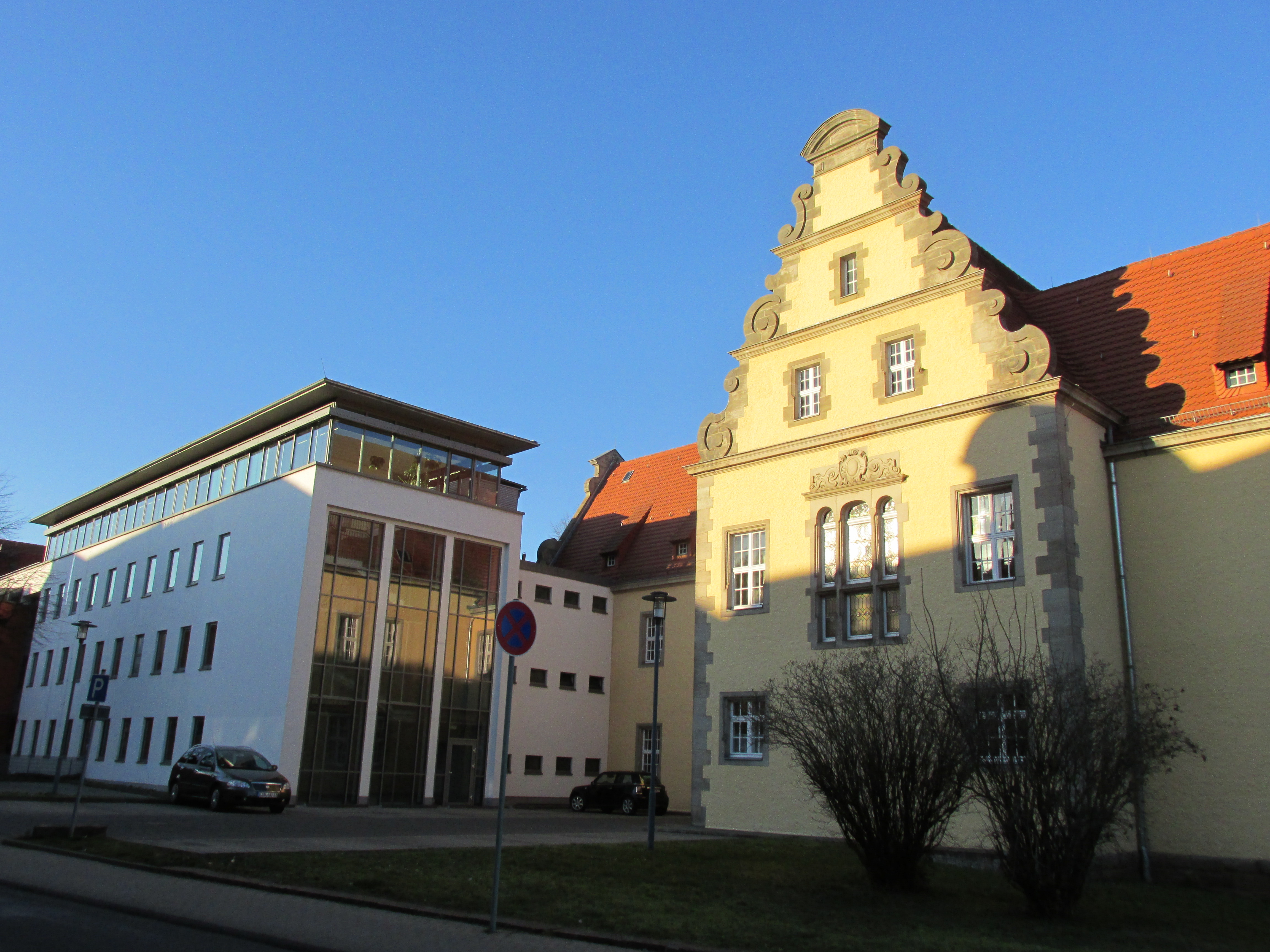 Courthouse Amtsgericht Eschwege, Eschwege, Germany check usage Address Friedrich-Wilhelm-Straße 39 37269 Eschwege Germany Date12 March 2014SourceOwn work. (→ weitere 1,937 Bilder von mir in der Galerie)AuthorStefan FlöperPermission (Reusing this file) cc-by-sa-3.0, gfdl 1.2+